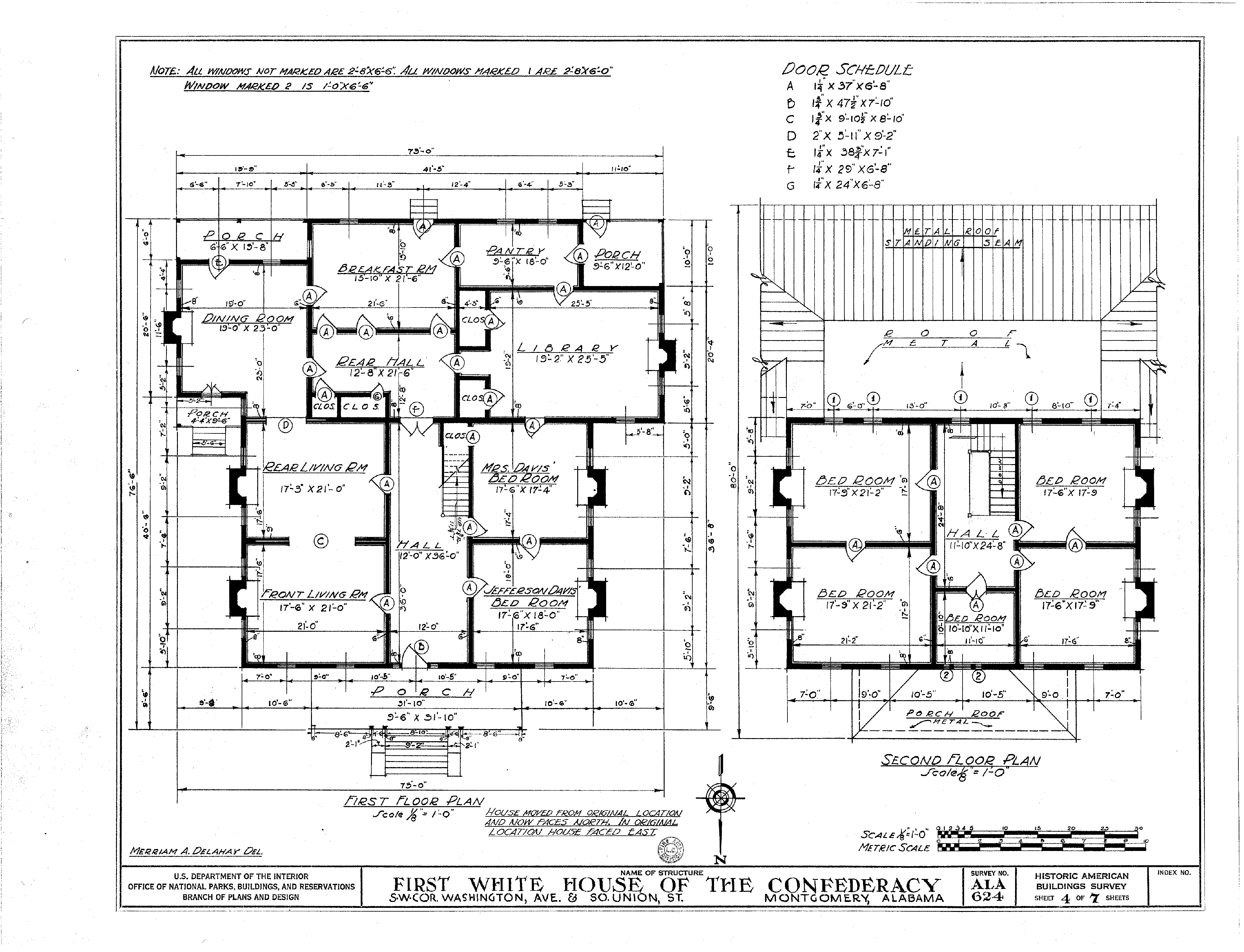 Interior plan of the First White House of the Confederacy in Montgomery, Alabama